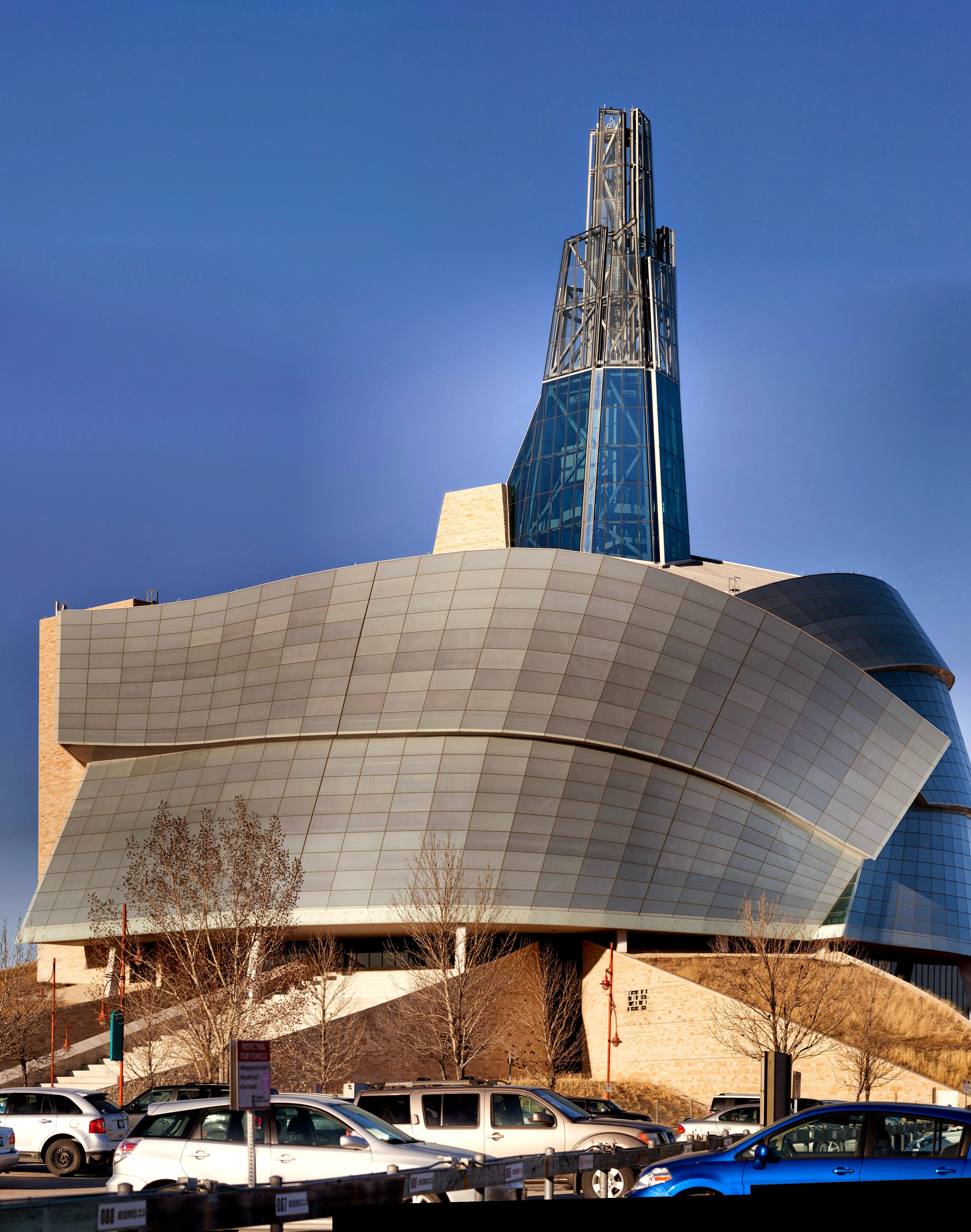 Canadian Museum for Human Rights, Winnipeg April 2015